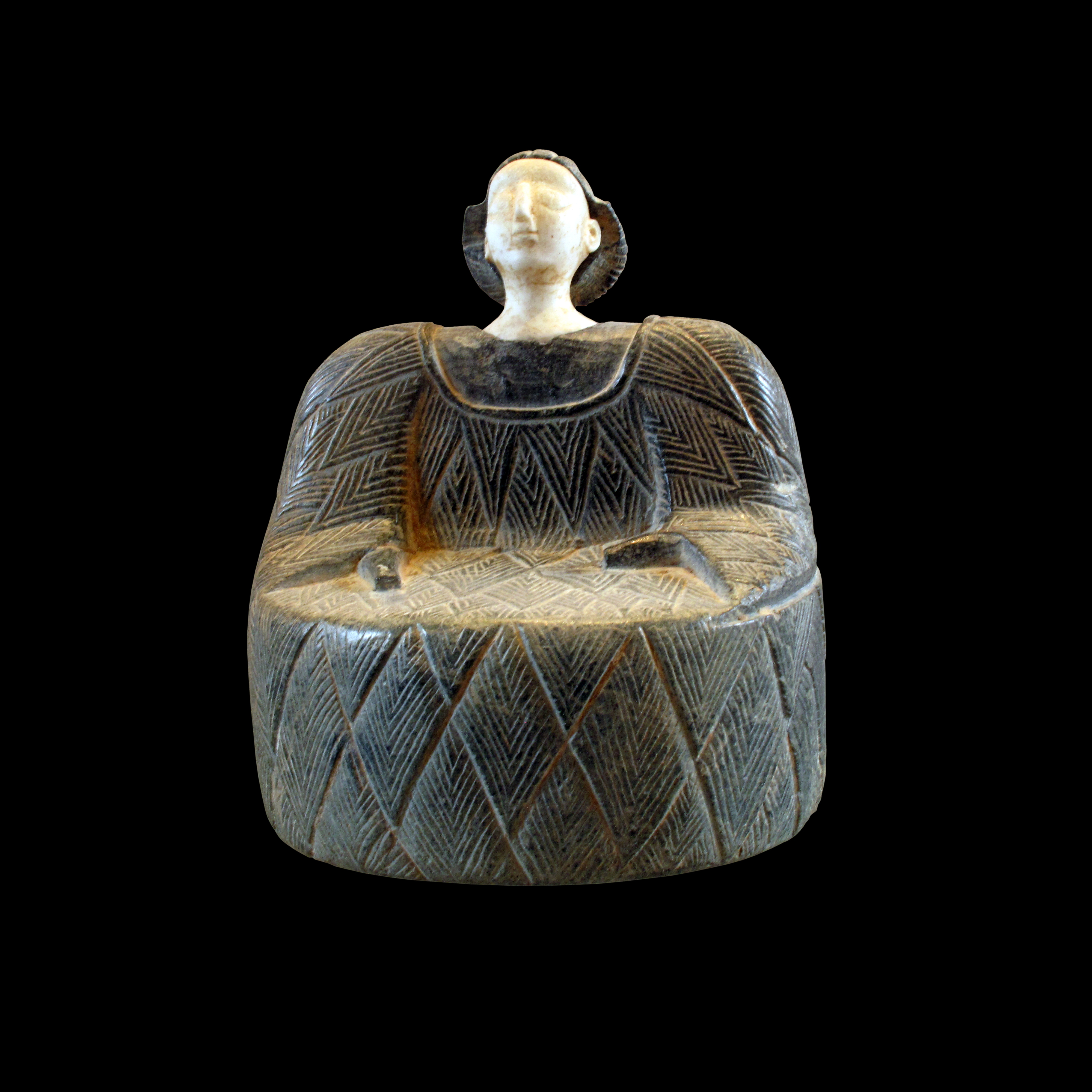 Female statuette bearing the kaunakes ("crinoline" dress). Chlorite and limestone, Bactria, beginning of the 2nd millennium BC.